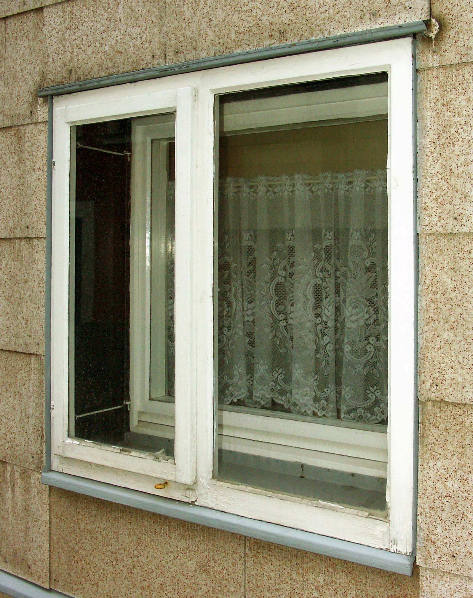 Additional window placed during the winter in some mountainous regions of Germany. Very few left now